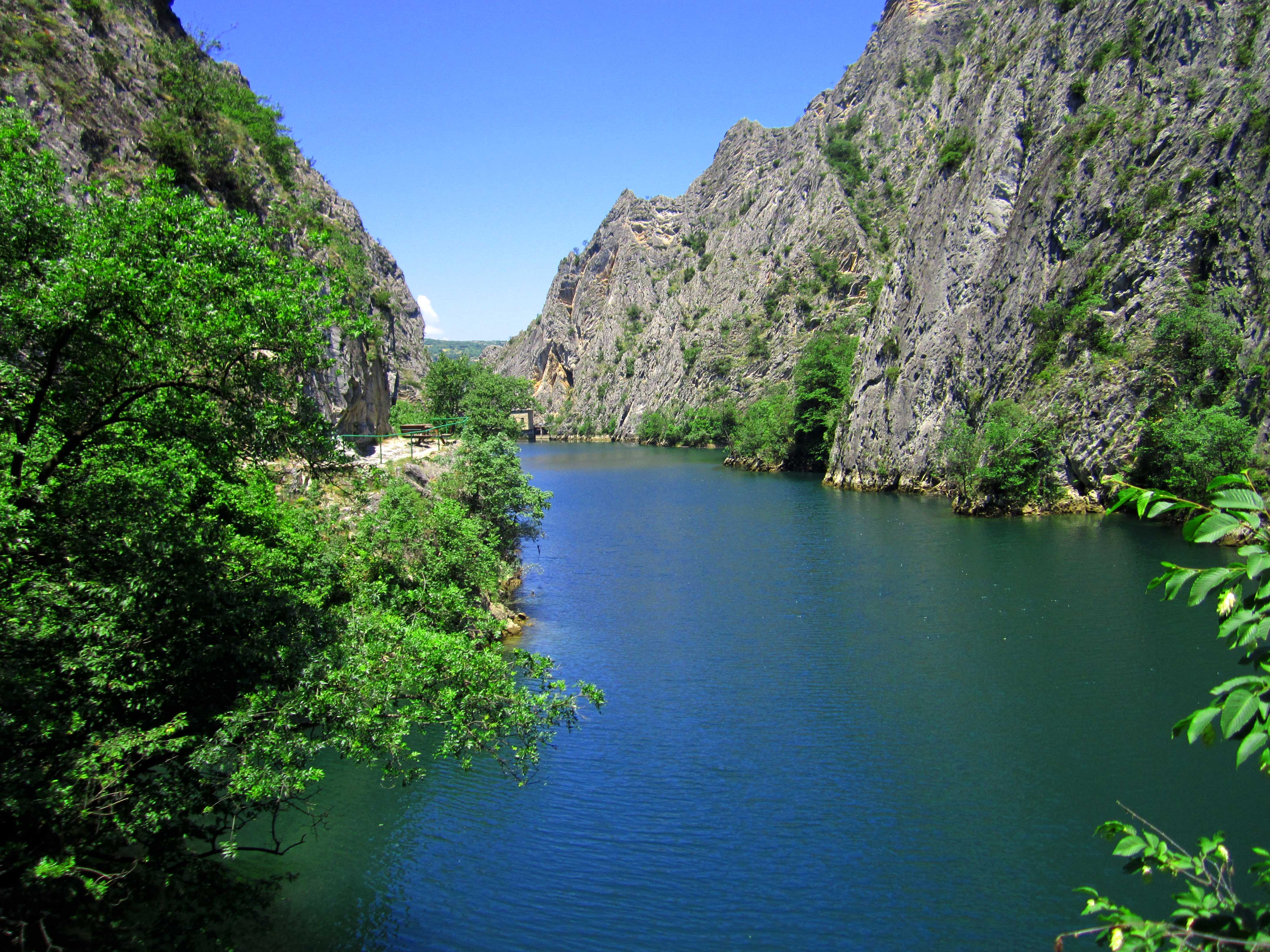 The Matka canyon is located in the lower course of river Treska, 15km southwest of Skopje with it's geological, geomorphologic and hydrological characteristics, and the flora and fauna, it is an exceptional object of nature